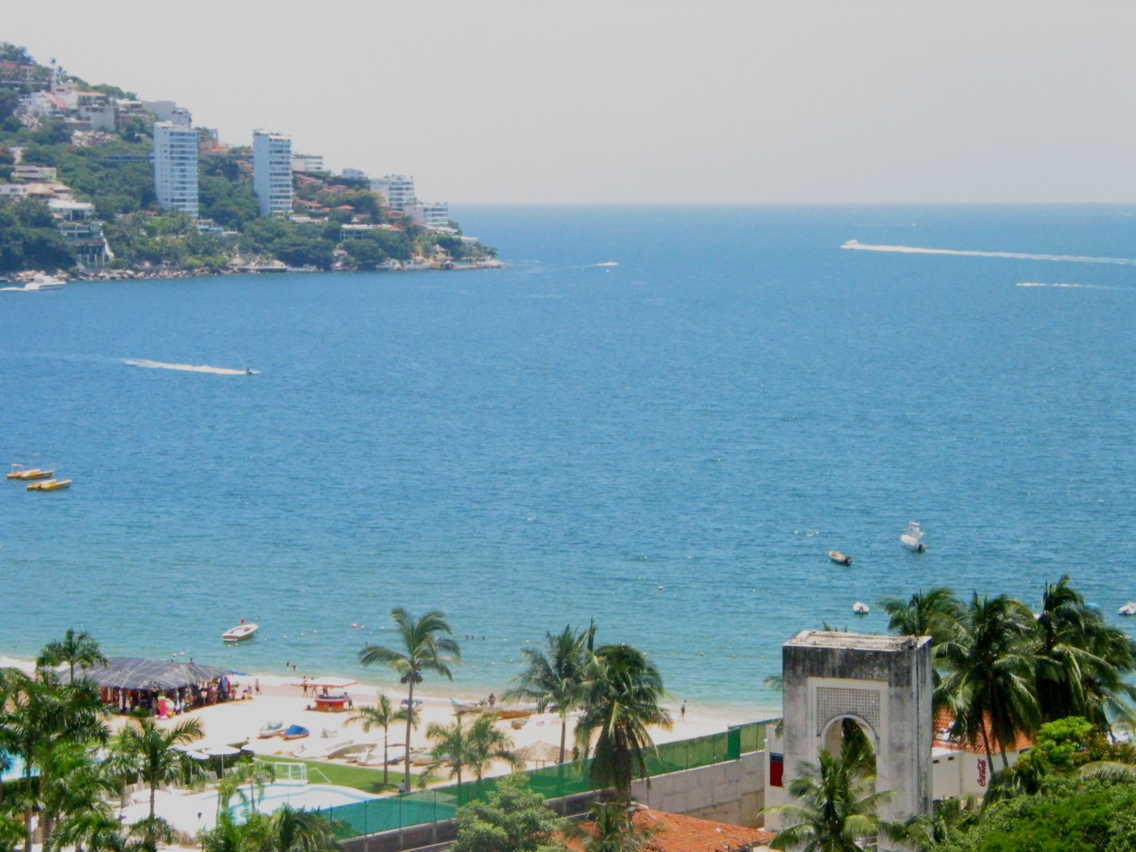 Acapulco Beach.